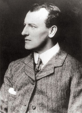 Photo of Sidney Paget